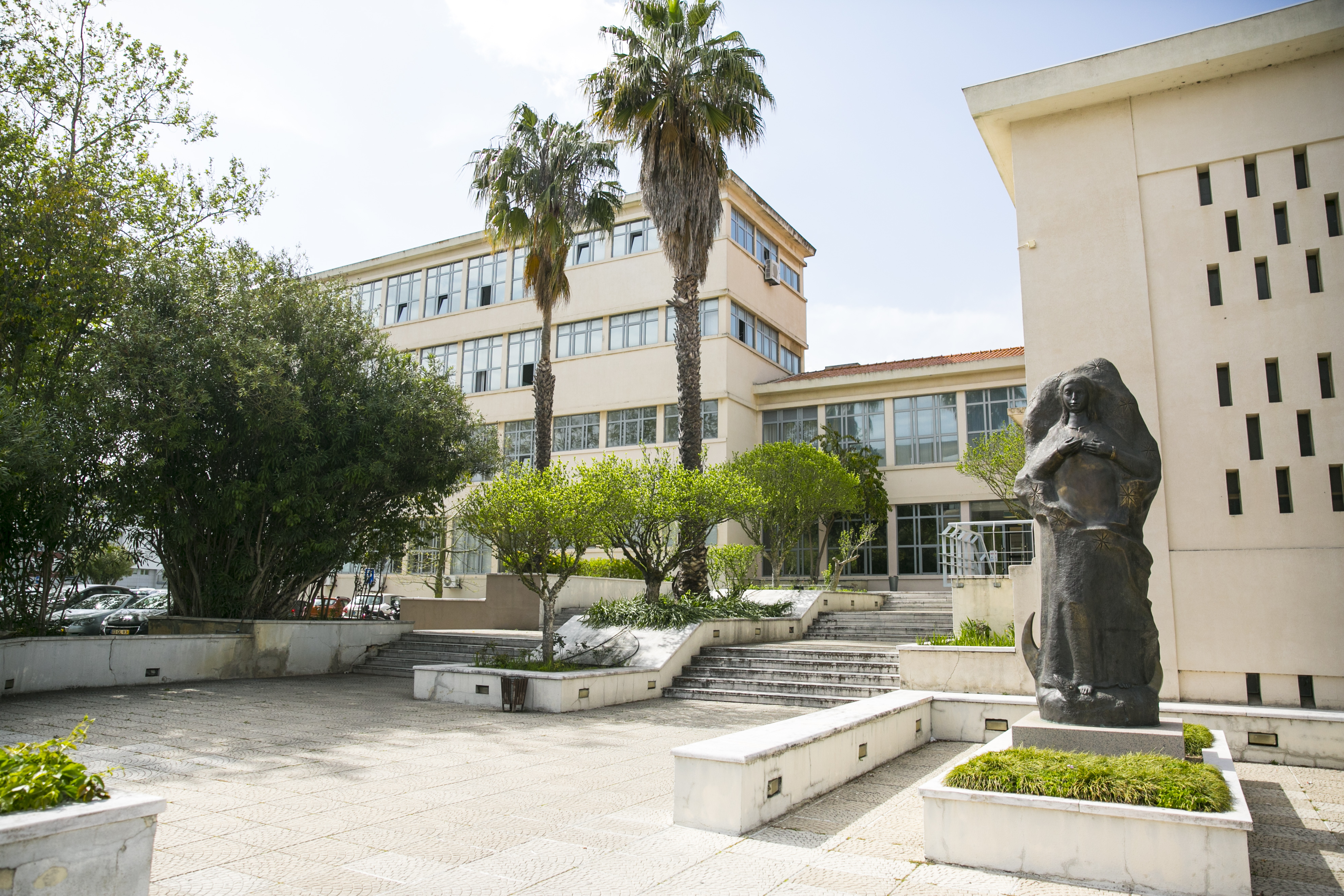 UCP Faculty of Human Sciences